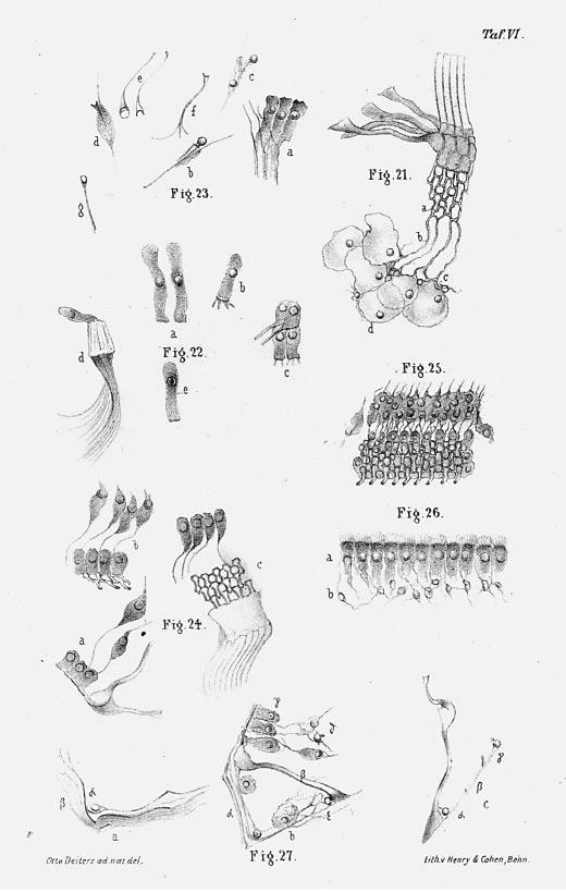 One of the plates from Deiters’ publication contains various depictions of hair cells and their attachment to Deiters’ cells.